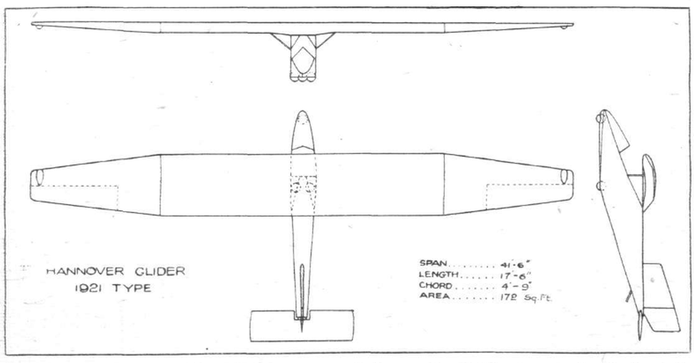 3-view of the Akaflieg Hannover Vampyr (1921)